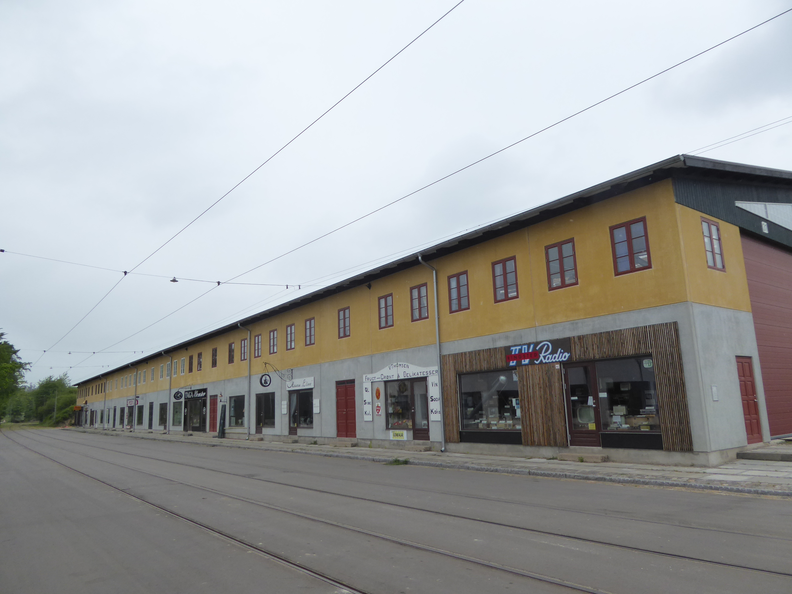 The tram depot Remise 3 at Sporvejsmuseet Skjoldenæsholm in Denmark. The left side of the depot is made to look like a row of buildings with various shops.